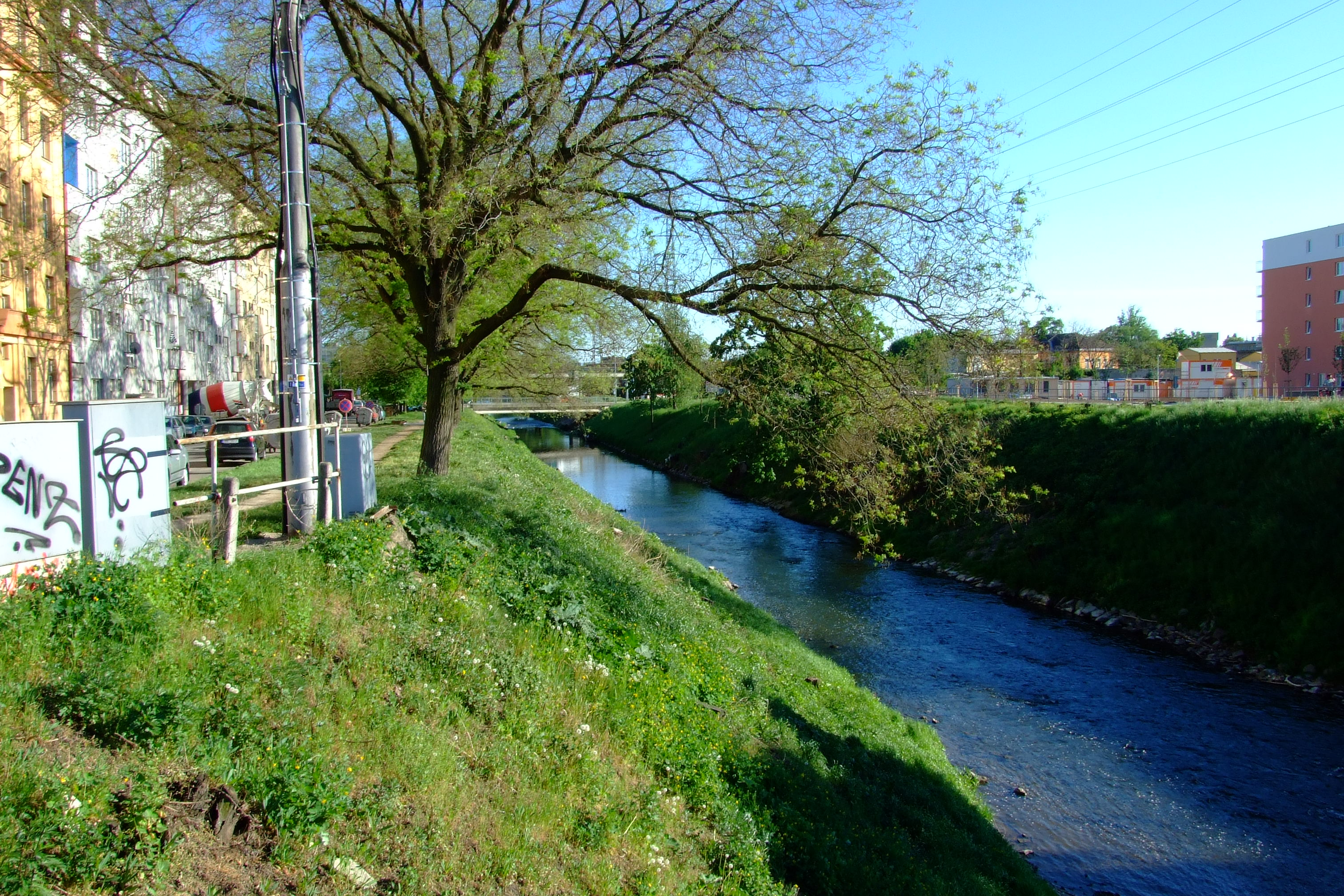 Svitava river in Brno-Černovice city district